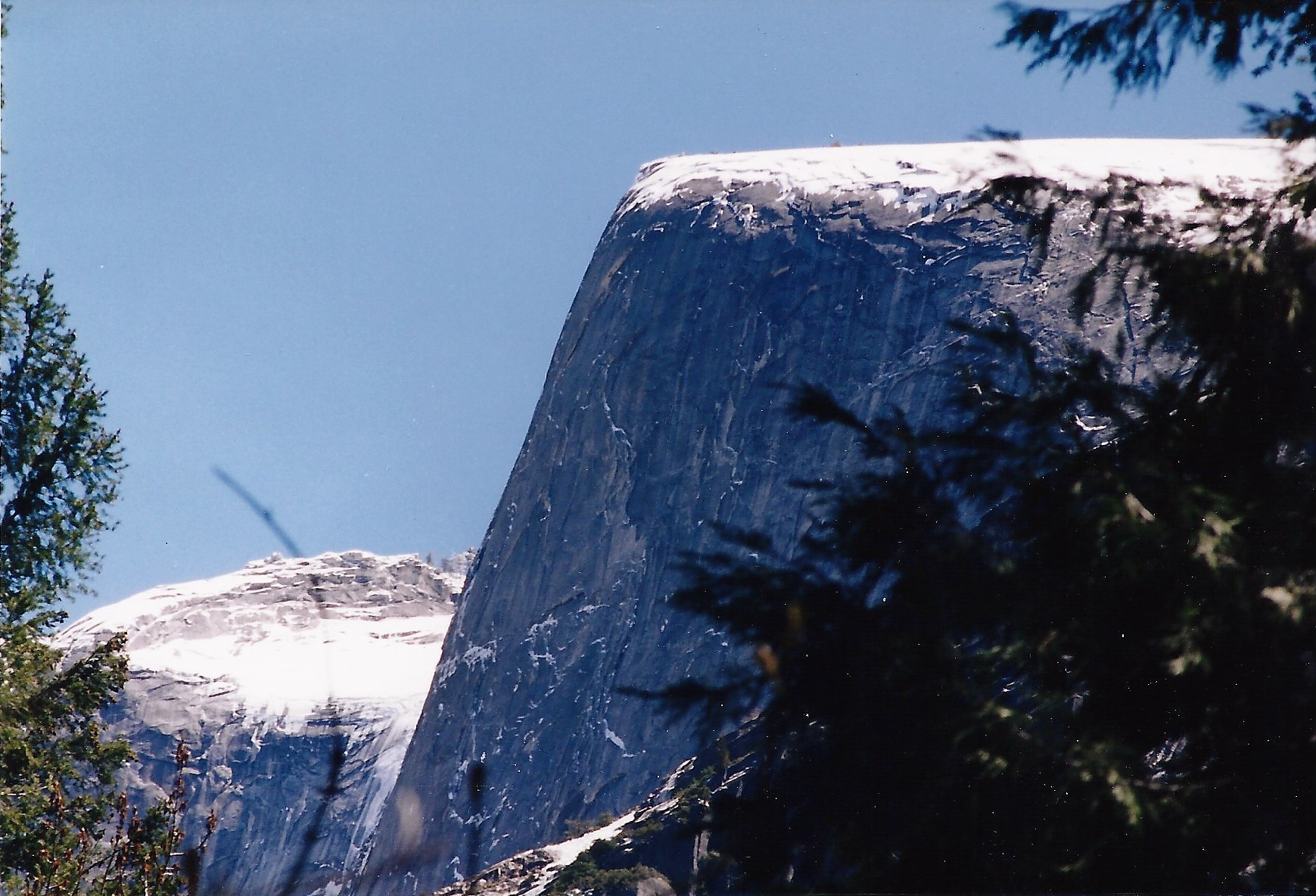 Quarter Dome dusted in snow April 19, 1995